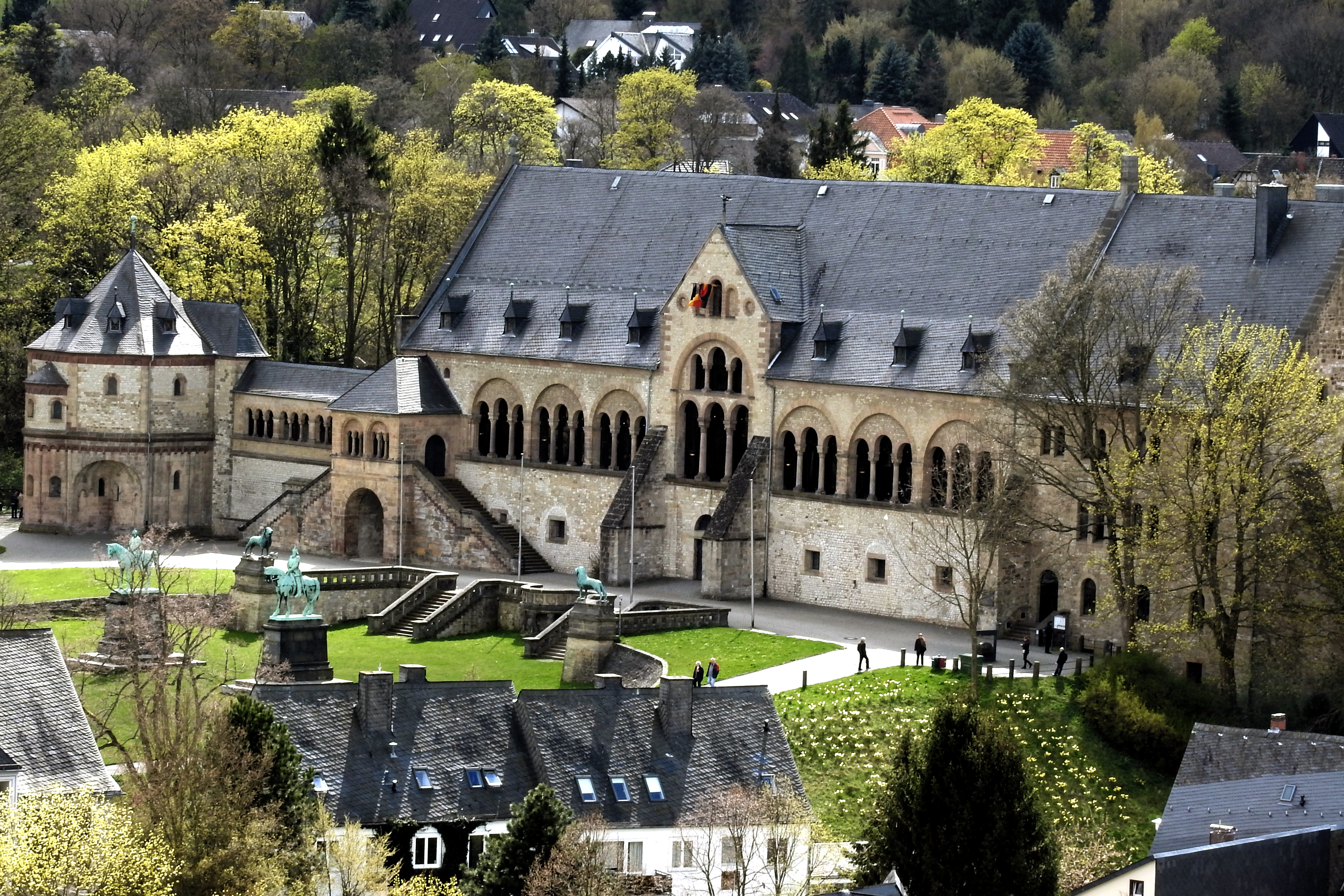 Imperial Palace of Goslar.